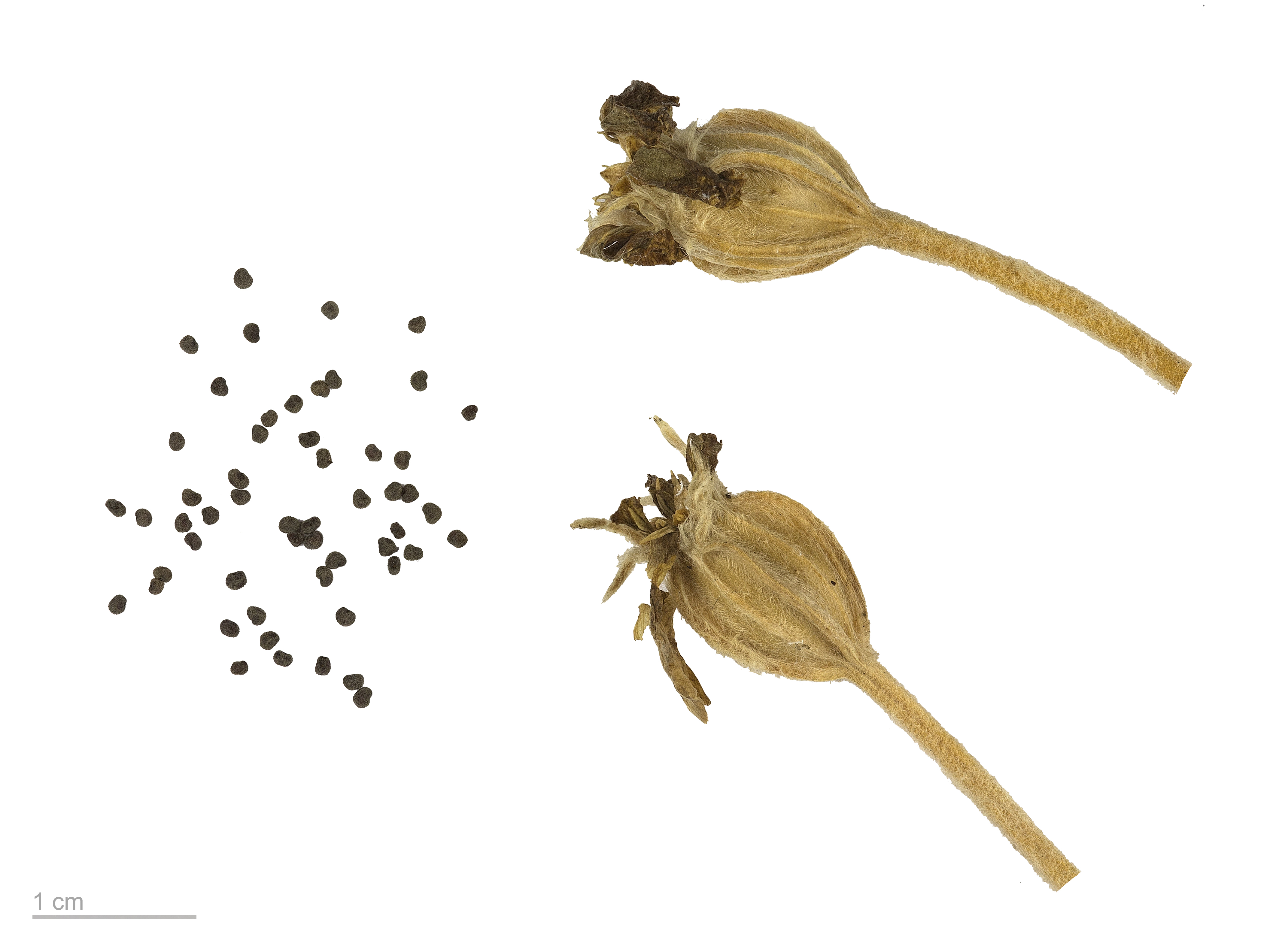 rose campion , fruits and seeds